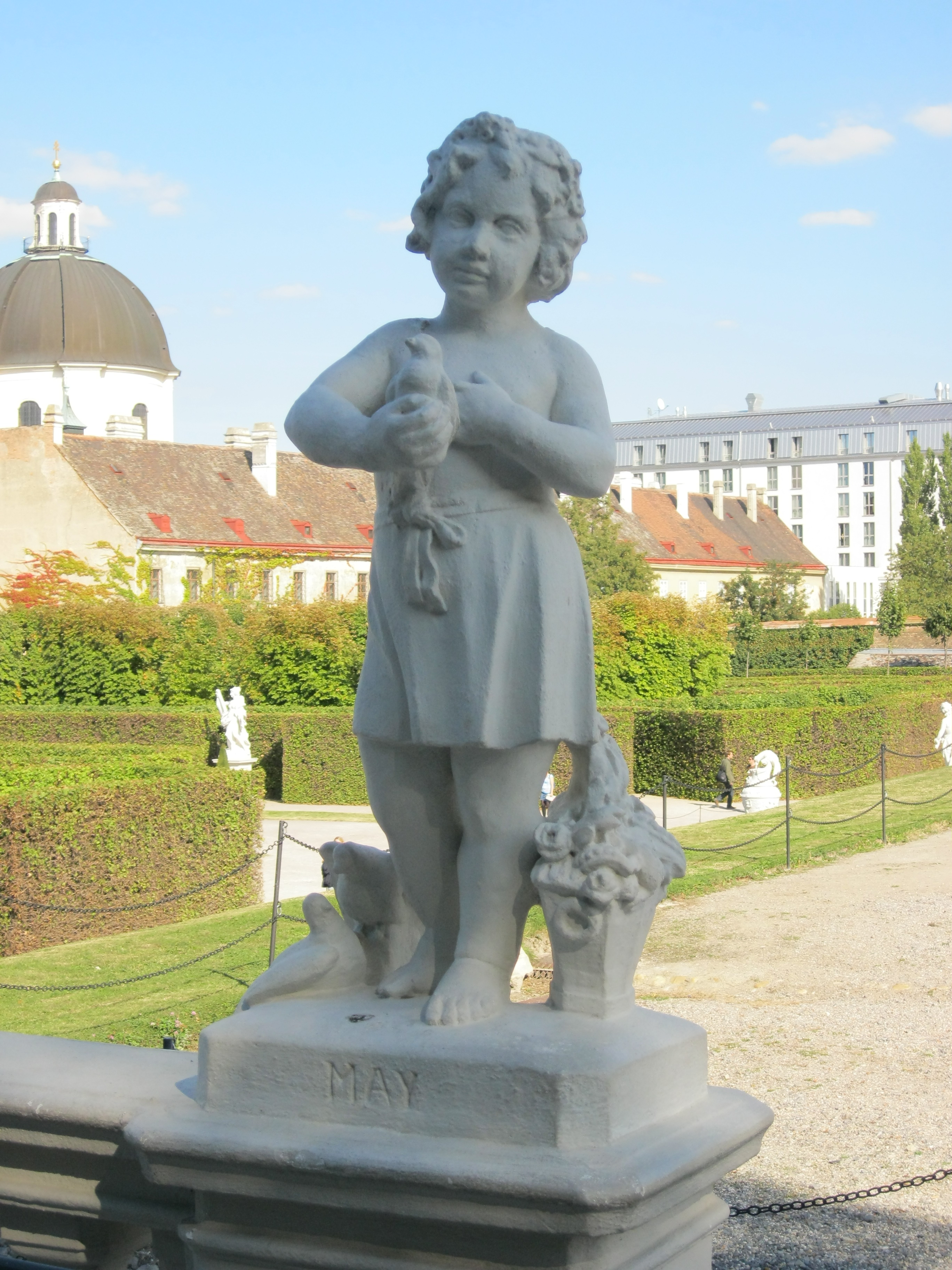 Sphinxes and sculptures in the gardens of Belvedere in Vienna, exterior sight, Putto of May Object location48° 11′ 31.49″ N, 16° 22′ 50.82″ E